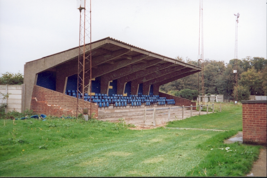 east stand, cheshunt fc